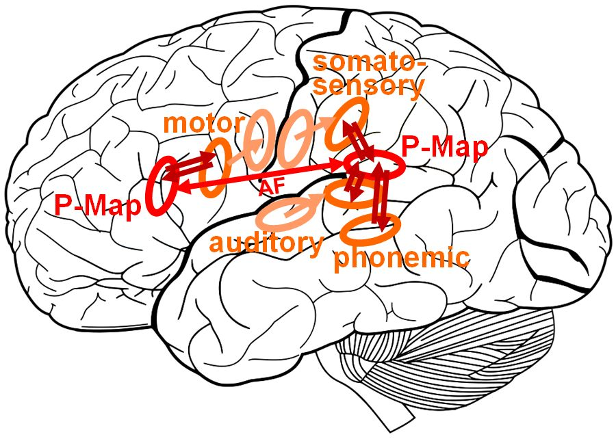 Brain regions of neural maps of the ACT model (neurocomputational model of speech processing)